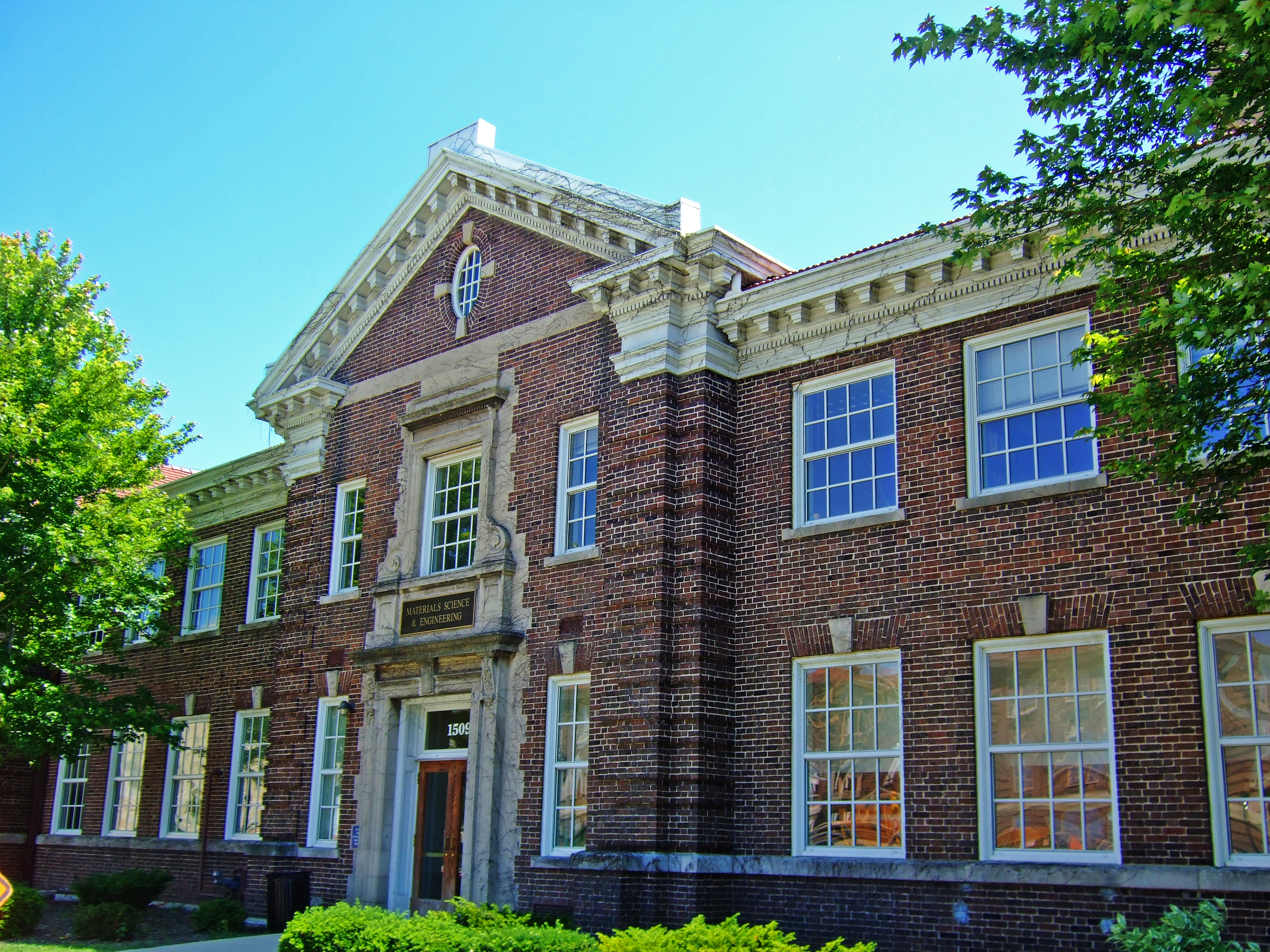 The Old U.S. Forest Products Laboratory at 1509 University Avenue in Madison, Wisconsin, was designed in a Georgian Revival style by Albert F. Gallistell of the Arthur Peabody architectural firm and built in 1909. When the Forest Products Laboratory relocated to its current facility at 1 Gifford Pichot Drive in 1932, the School of Engineering's Department of Mining and Metallurgy moved into the Old Lab building. That department, now renamed Materials Science and Engineering, is still housed there. The building was added to the National Register of Historic Places in 1985.